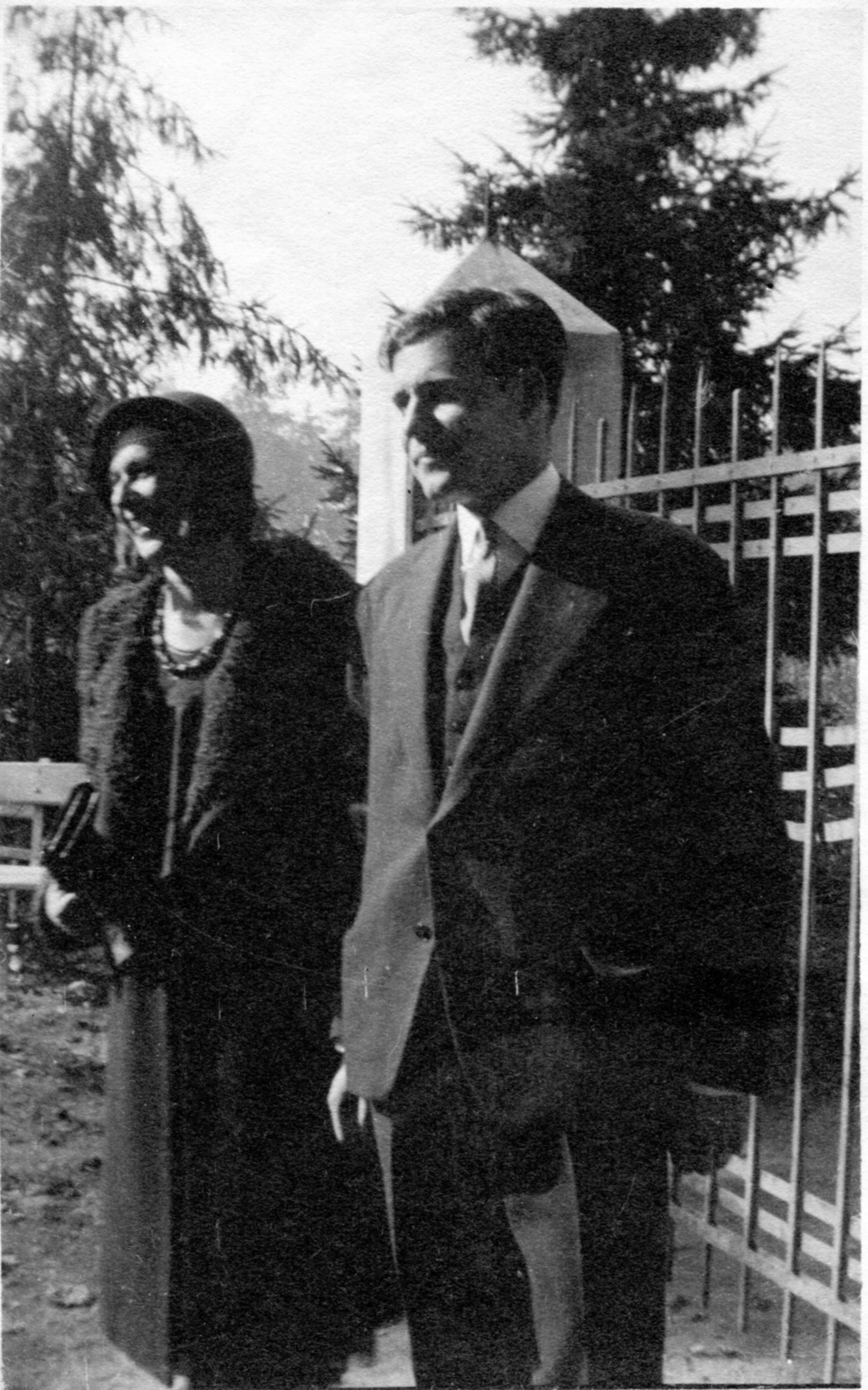 Aldo Bertini and Maria Marchesini